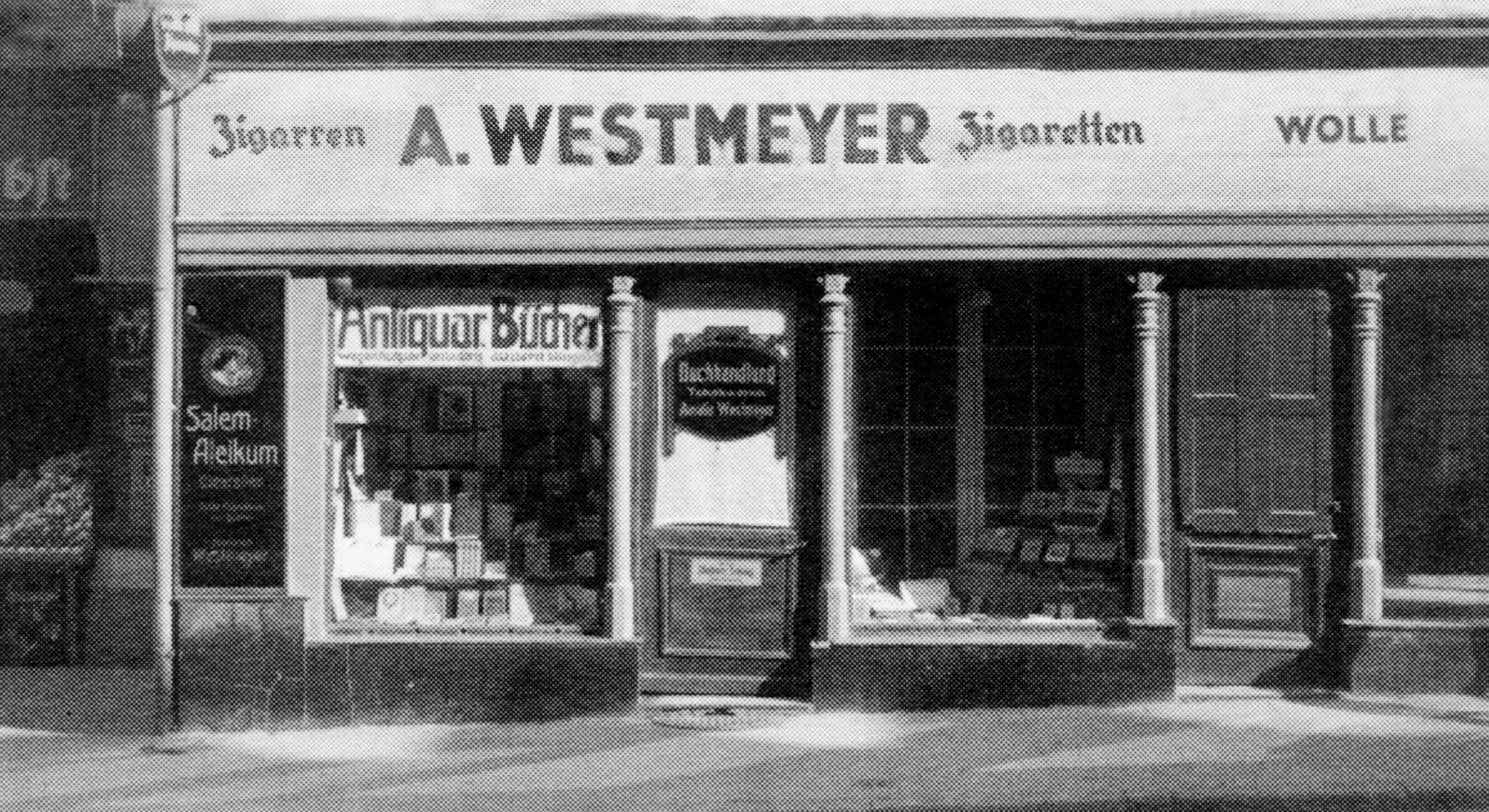 image: Friedrich Westmeyer’s tobacco- and bookshop, Stuttgart 1915 Image: image produced by Berkan, 2008, picture shows: Friedrich Westmeyer, politician, trade unionist, owner of tobacco- and bookshop, Stuttgart 1915, publication permission by Theodor Bergmann